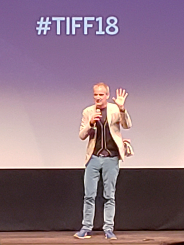 Olivier Assayas at a Q&A for Non-Fiction at the Winter Garden Theatre in Toronto, Ontario, Canada